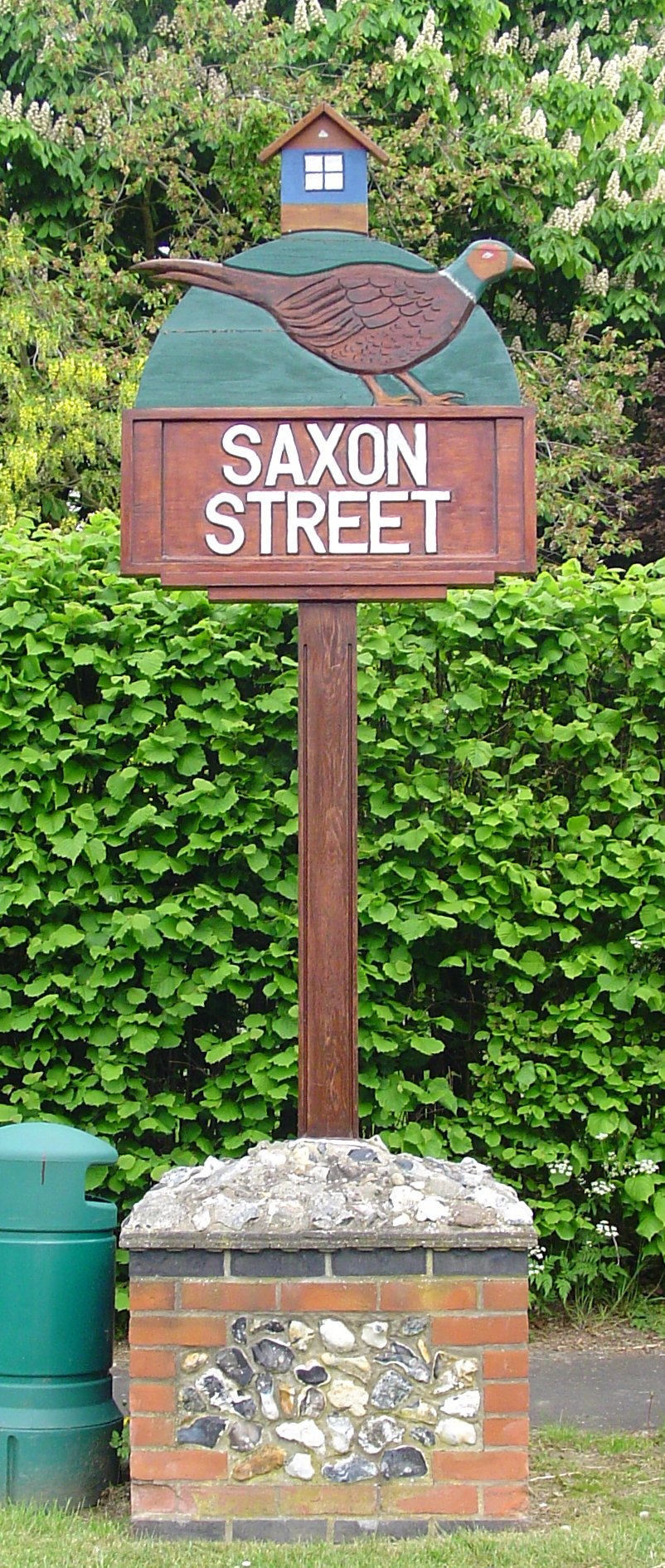 Signpost in Saxon Street